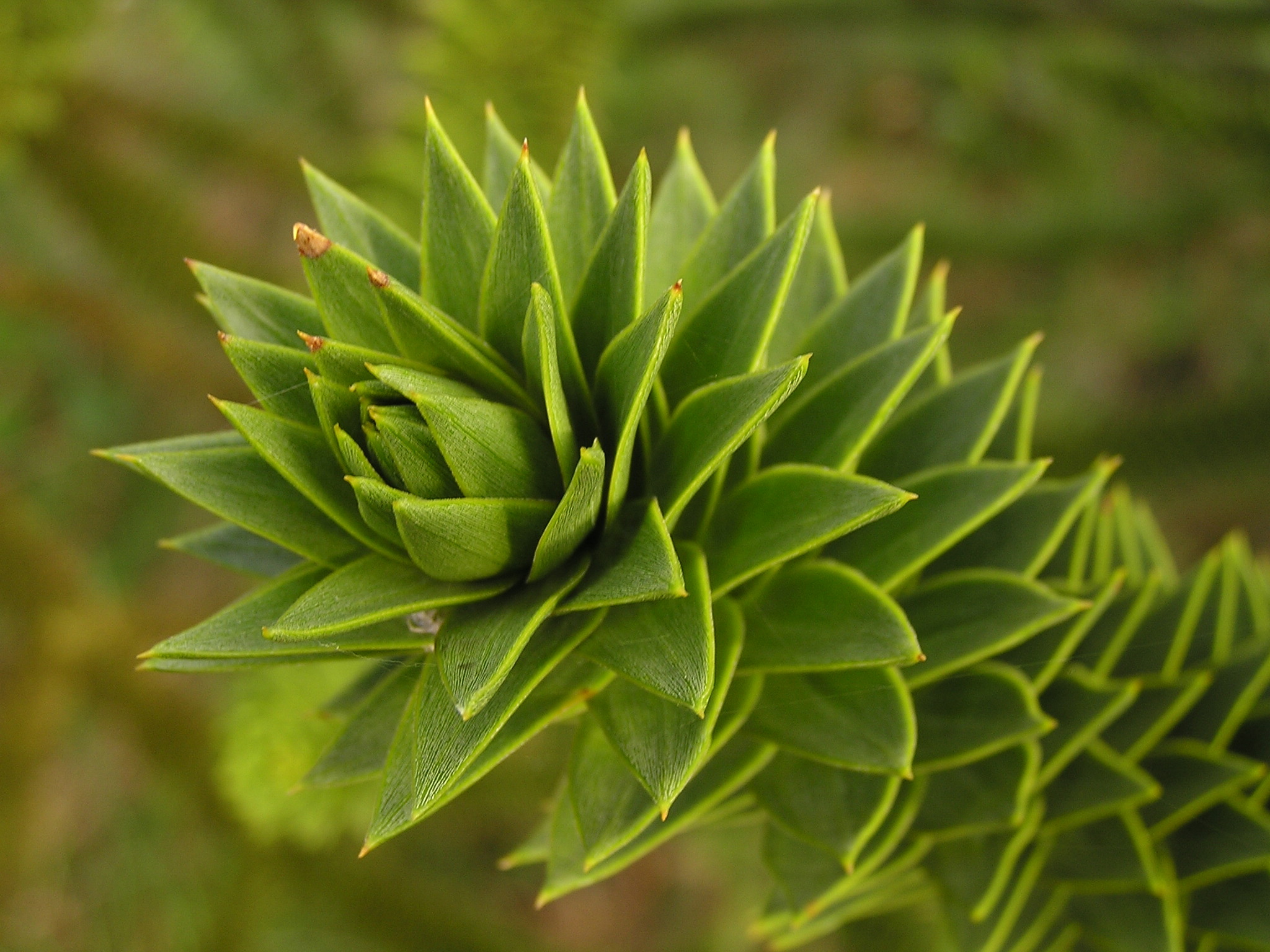 Monkey puzzles in the Arboretum Main-Taunus, arm with shoot